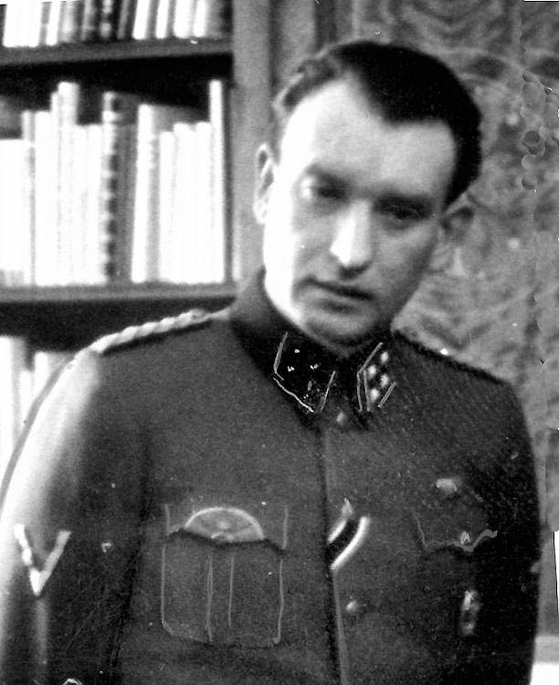 Rudolf Pavlu from Narodowe Archiwum Cyfrowe, Poland